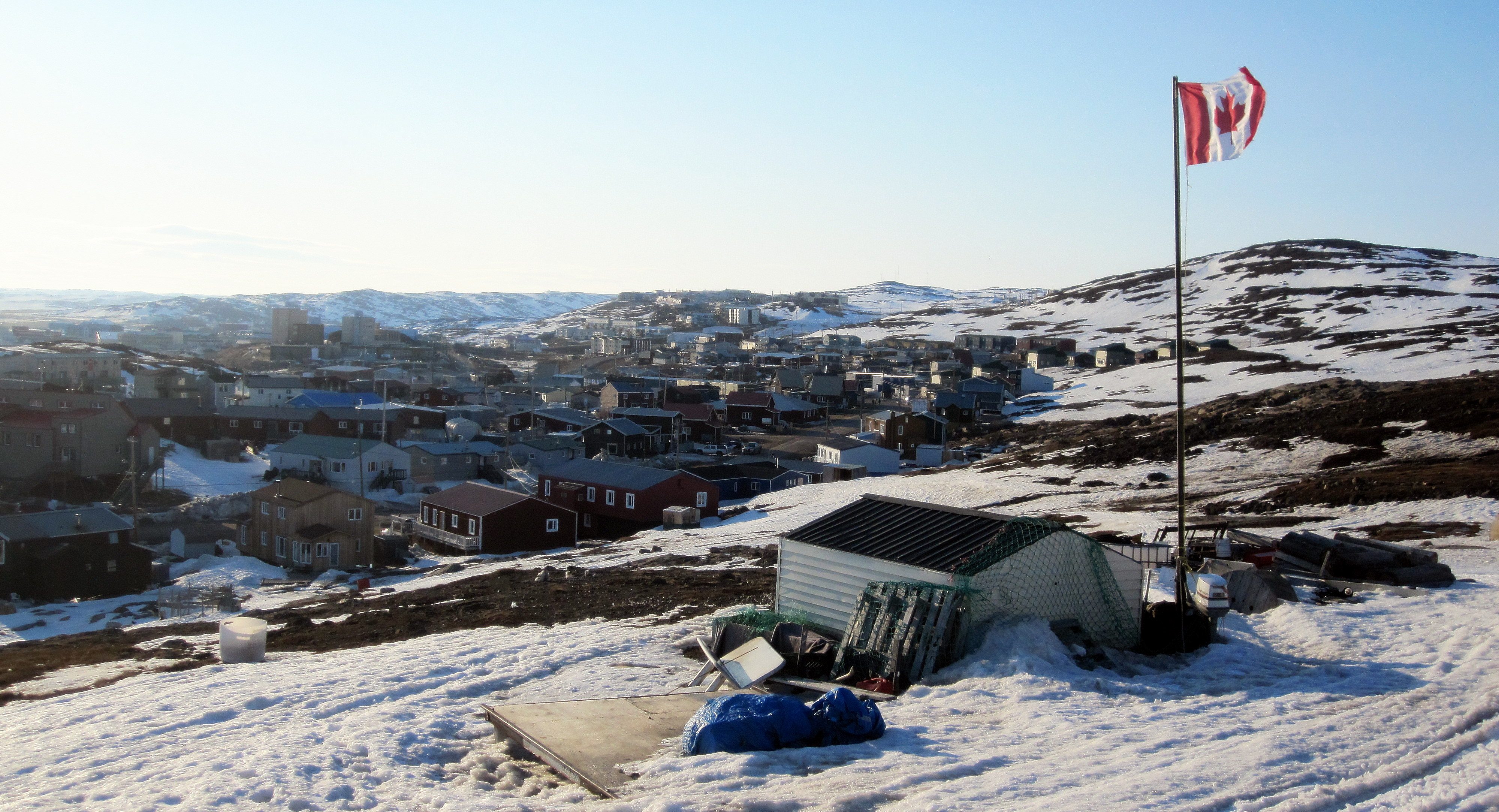 A View of Iqaluit from Joamie Hill. Taken with a Canon PowerShot SD780.